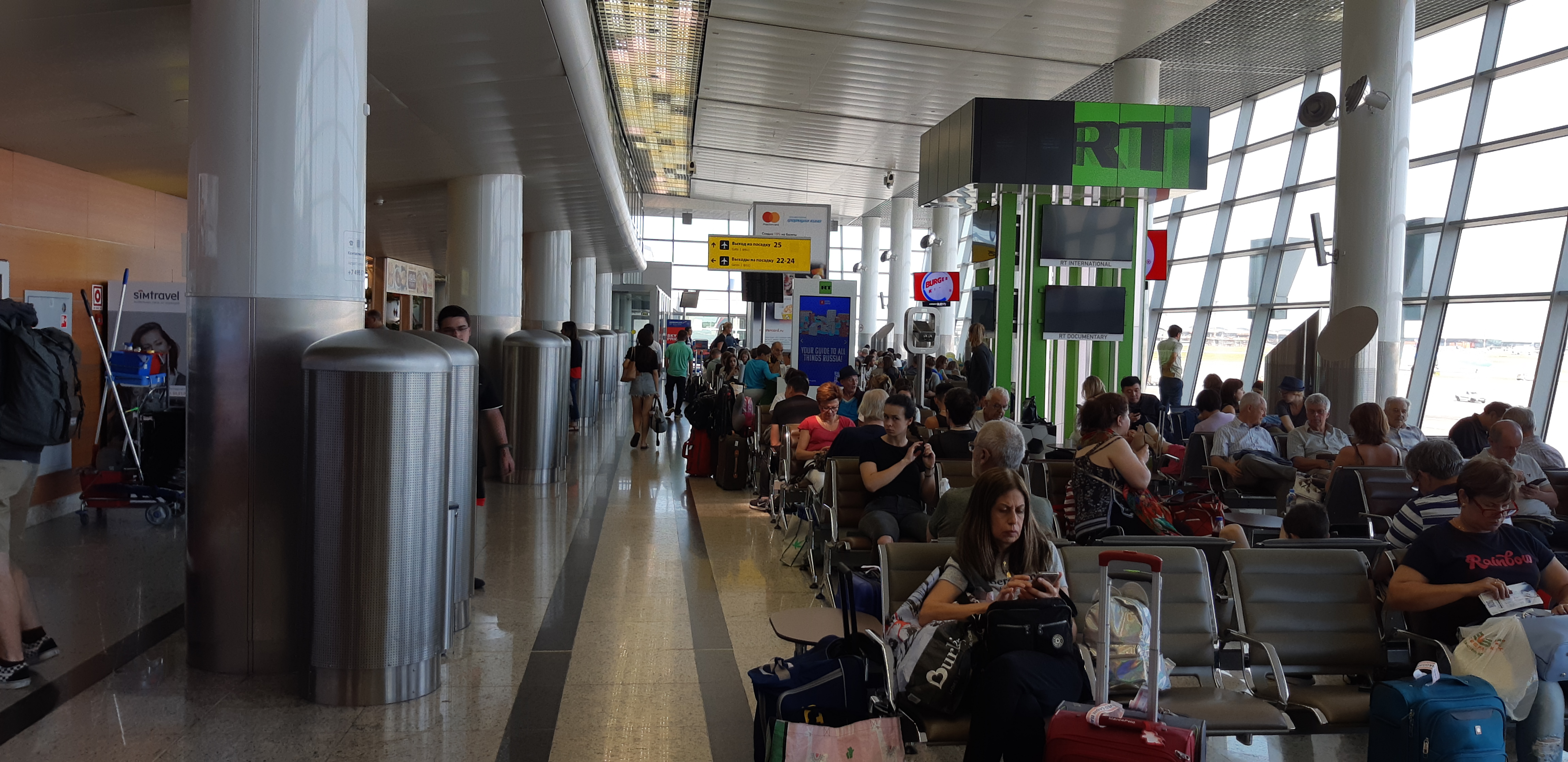 Sheremetyevo Airport D Terminal 2-nd floor